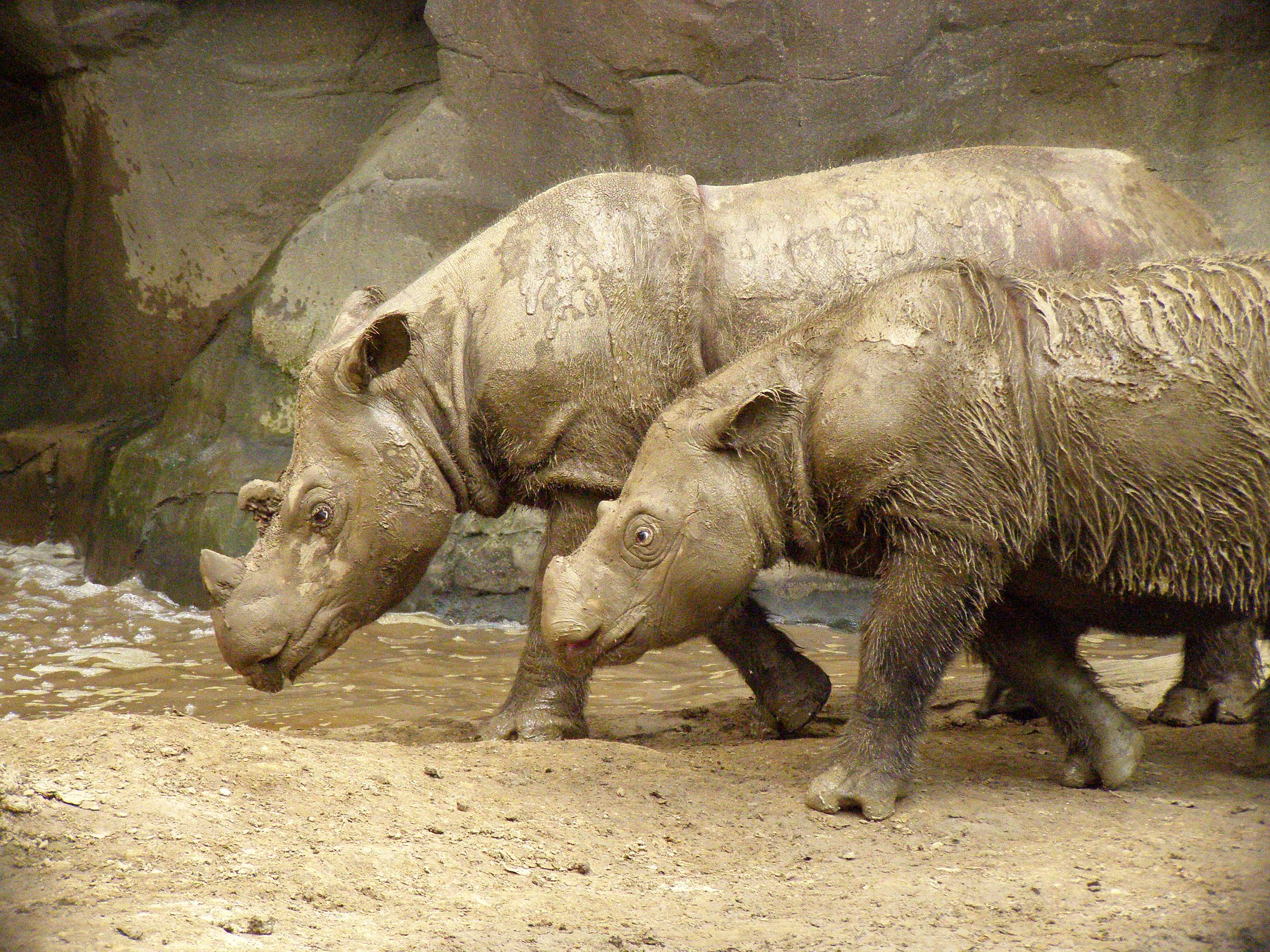 Sumatran Rhinoceroses at the Cincinnati Zoo & Botanical Garden